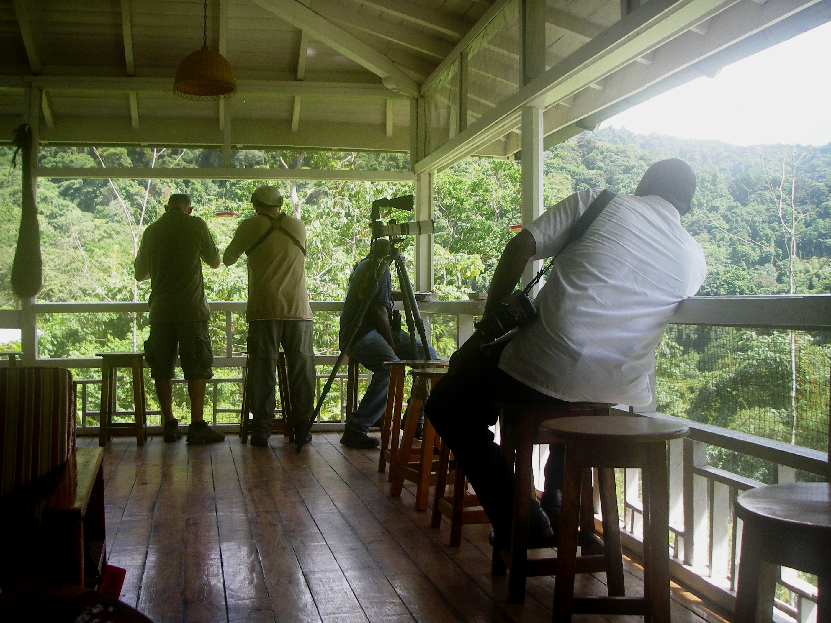 Inside visitor centre and lodge at Asa Wright Nature Centre, Trinidad